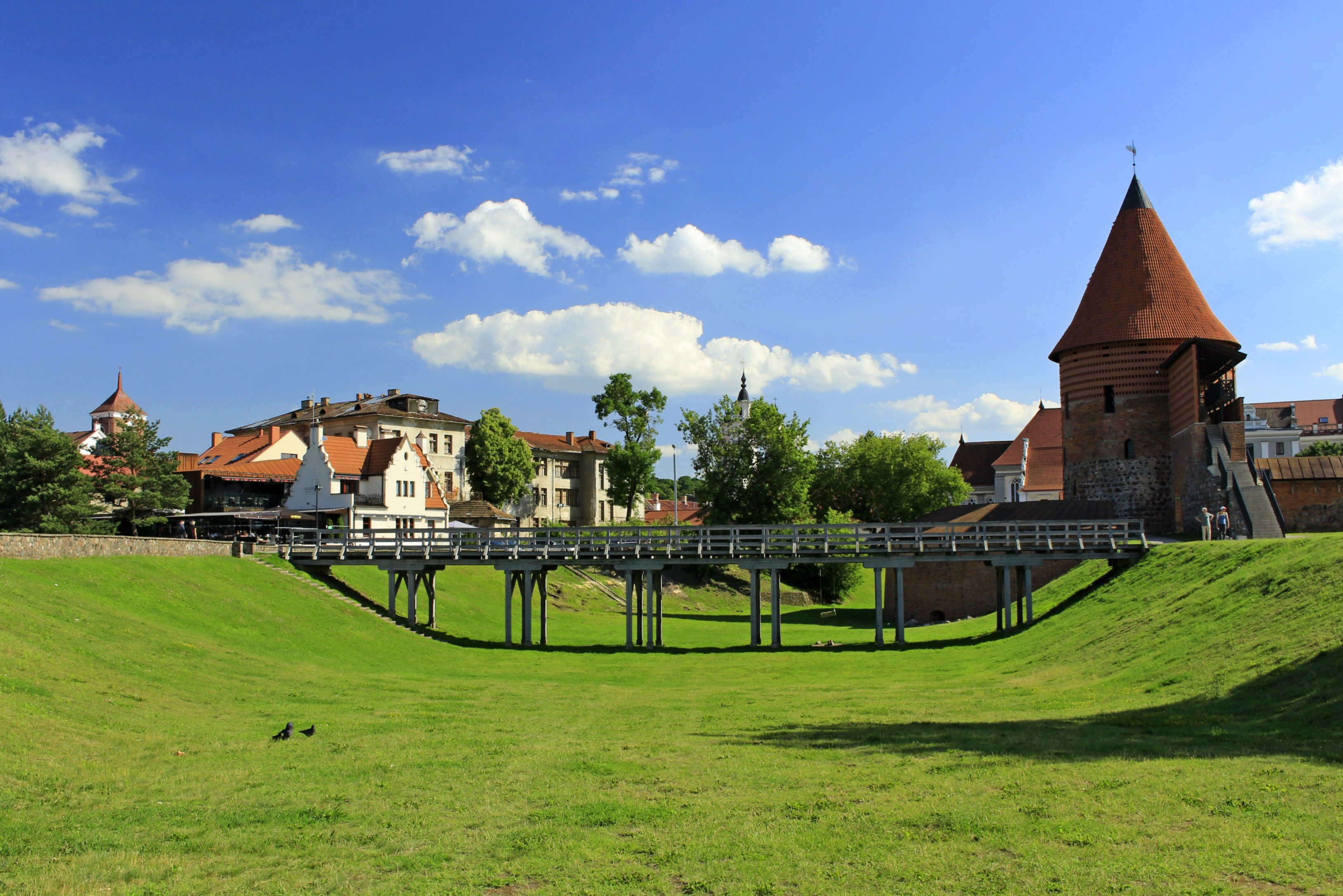 Kaunas Castle